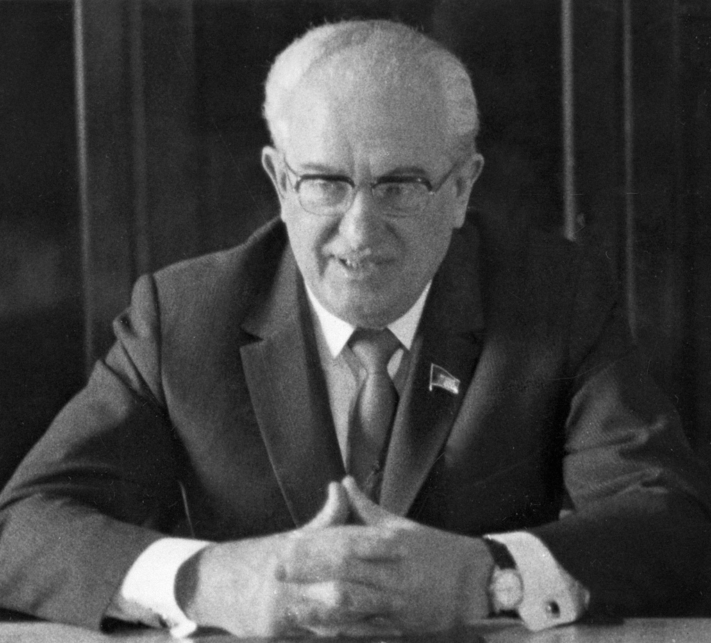 “Yury Andropov, Chairman of KGB”. Yury Andropov, chairman of USSR KGB.